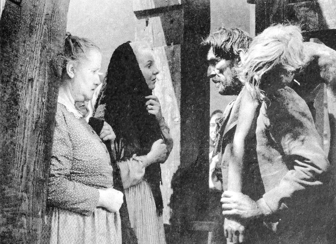 Photo from the 1941 film How Green Was My Valley.